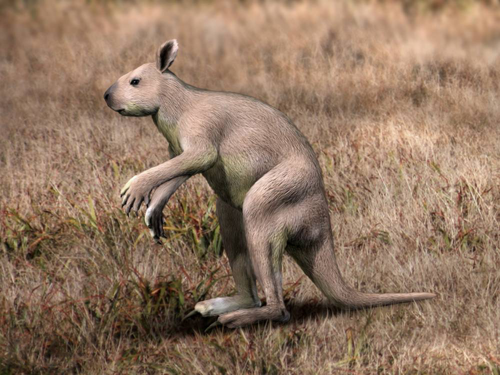 Sthenurus stirlingi, Pleistocene of Australia. Digital.